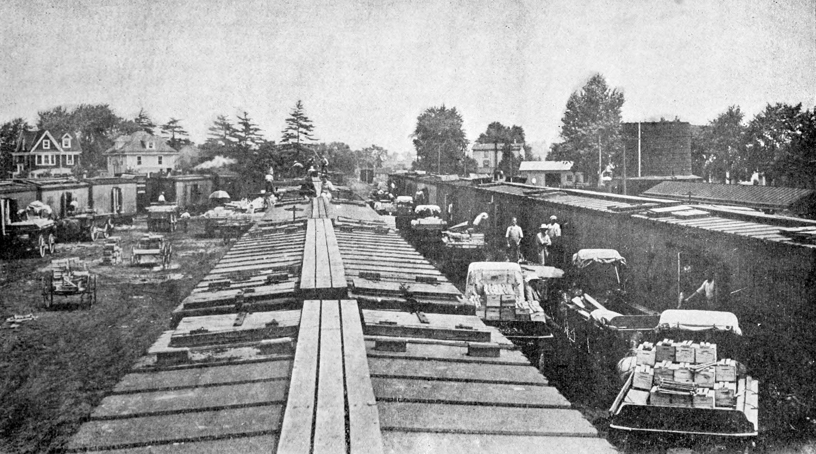 Tomato shipping in yard at Swedesboro, New Jersey.